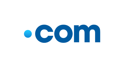 The official logo for the .com brand. It almost certainly falls under the threshold of originality.